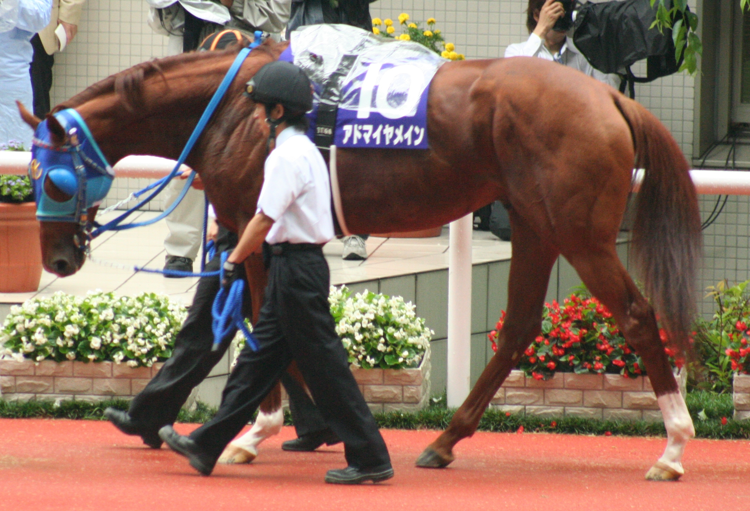 Admire Main (horse)